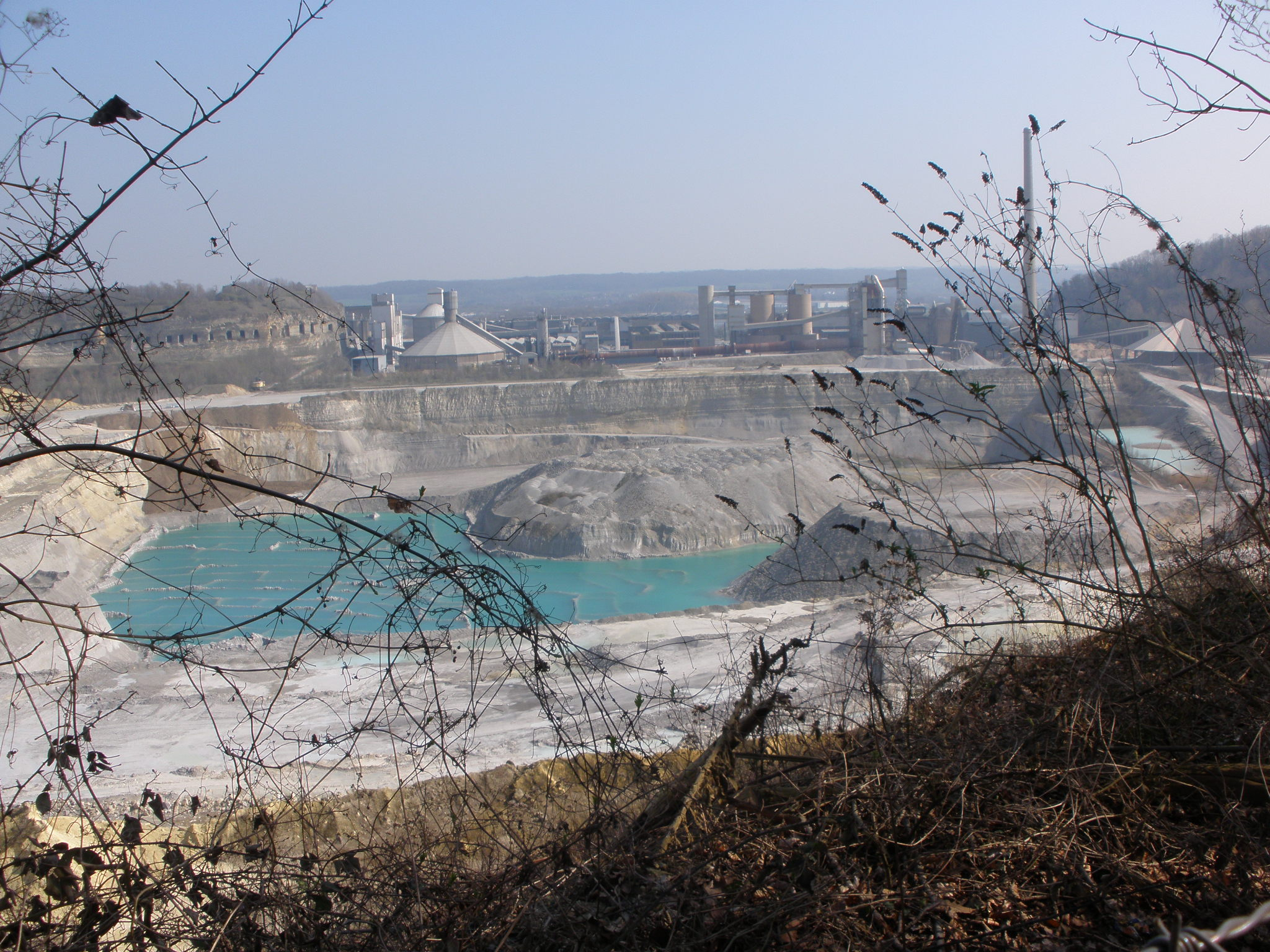 Maastricht, the Netherlands. View of an artificial lake in the ENCI quarry on the hill Sint-Pietersberg, South of Maastricht. Landscape refurbishment is underway in this area as part of the closure of the quarry in 2018.